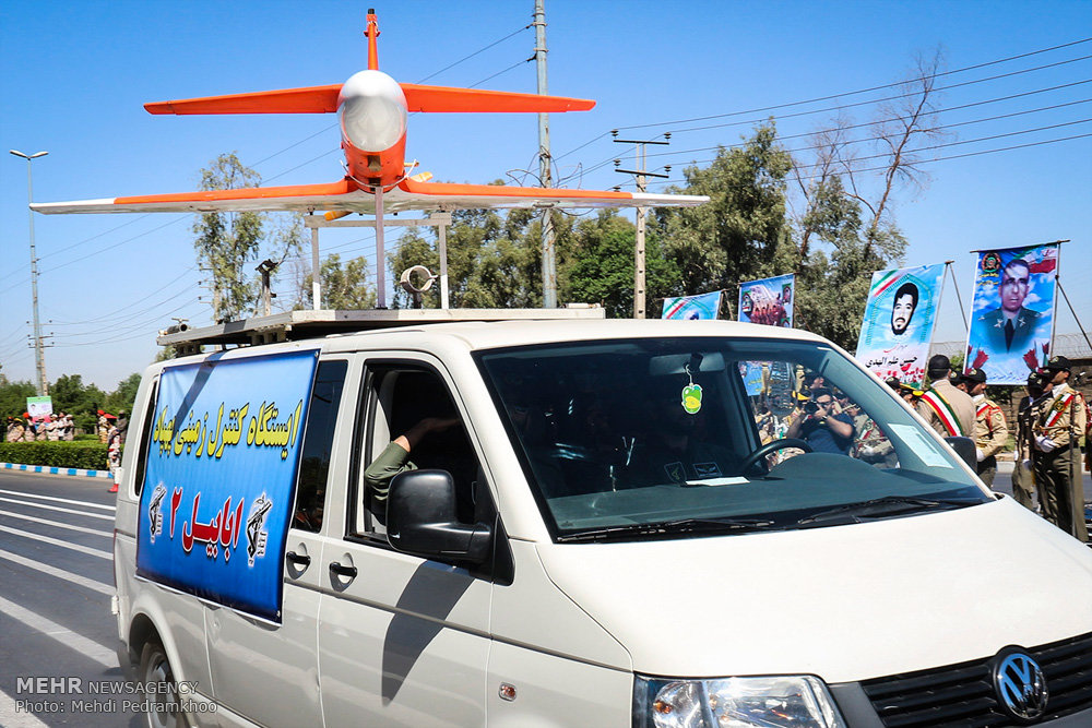 An Ababil-2 UAV on a van during a parade of the Iranian Army and IRGC in Ahwaz, Khouzestan province, or Mashhad, Khorasan Razavi province on 21 September 2016.